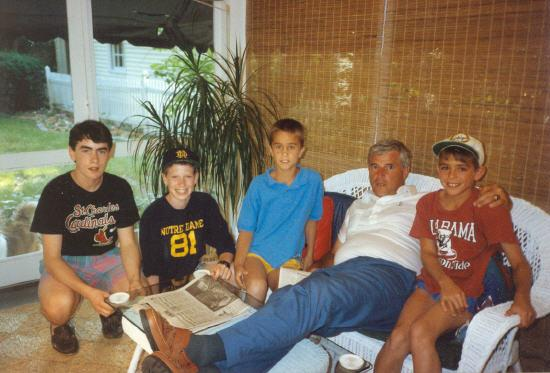 this is a picture of Bobby Knight in Columbus, Ohio talking basketball with young fans in summer of 1988